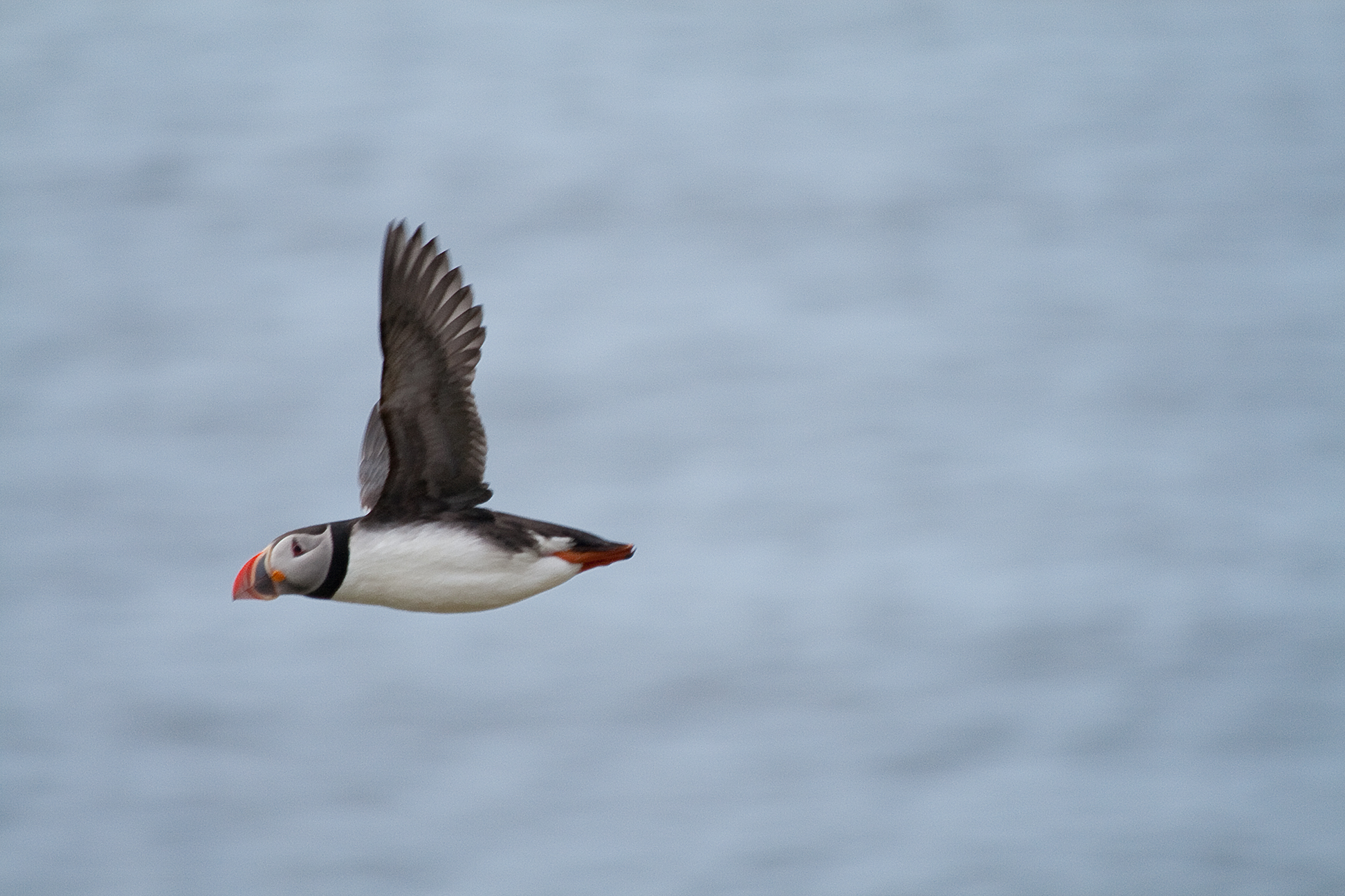 While sitting at the cliffs it became a sport to try to catch the bypassing puffins with the camera. Almost impossible to get a perfect shot. This is my best. Extremely sharpened in post-processing.